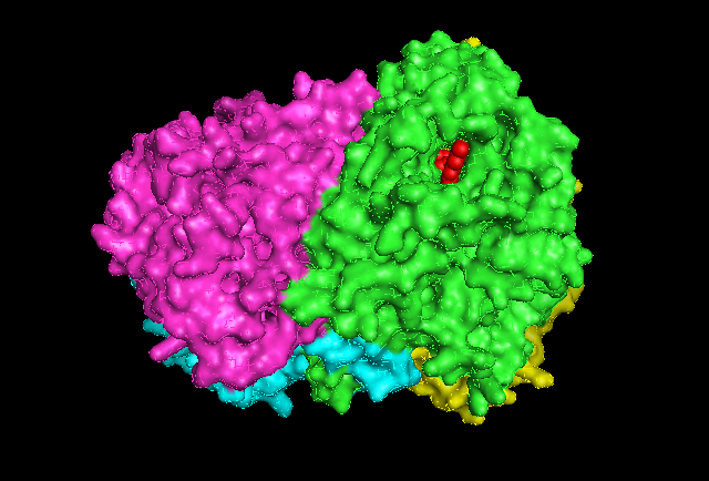 The active tertamer make up of chorismate synthase enzyme showing interaction with just one of four FMN molecules.